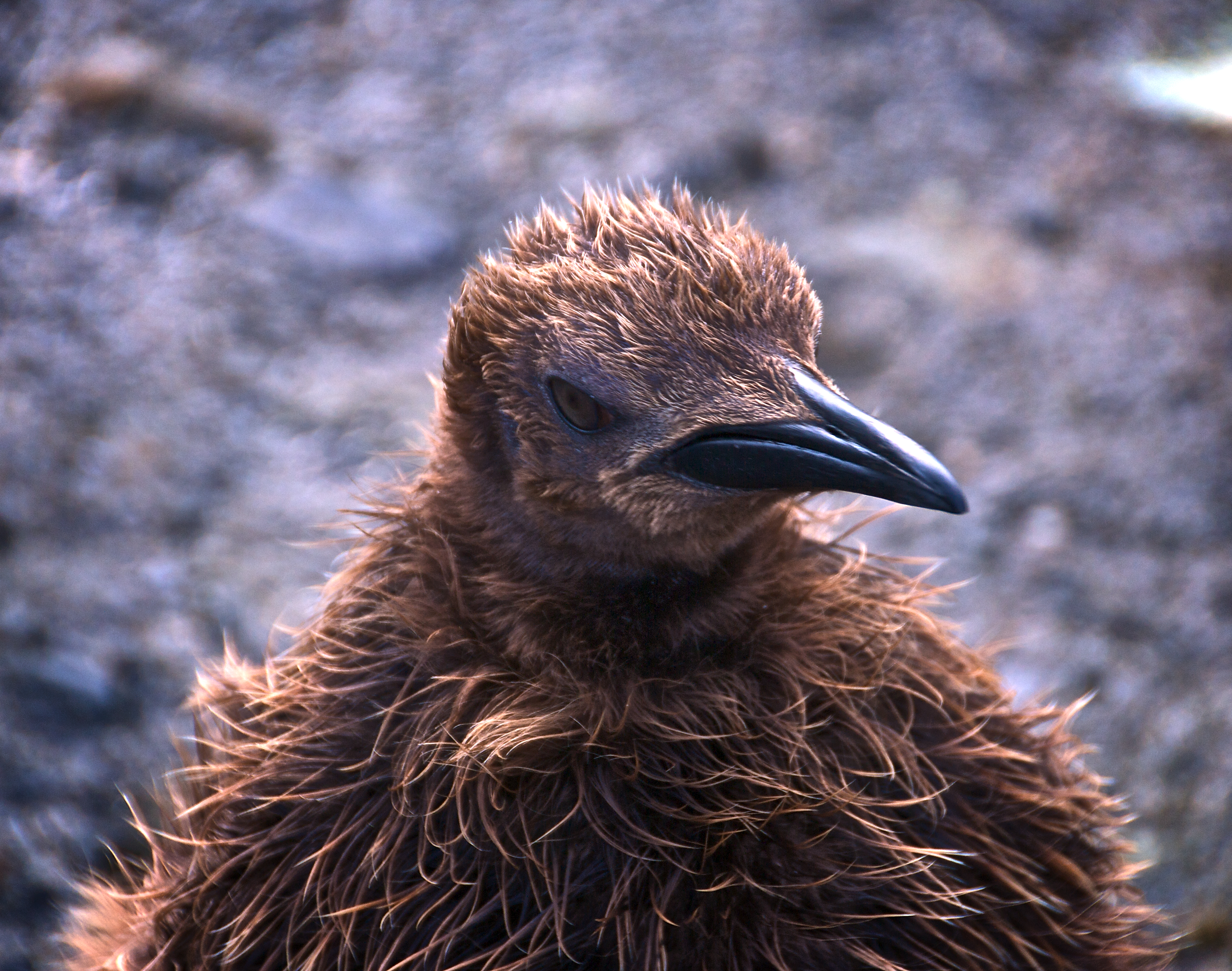 king penguin chick. South Georgia. March 2009.